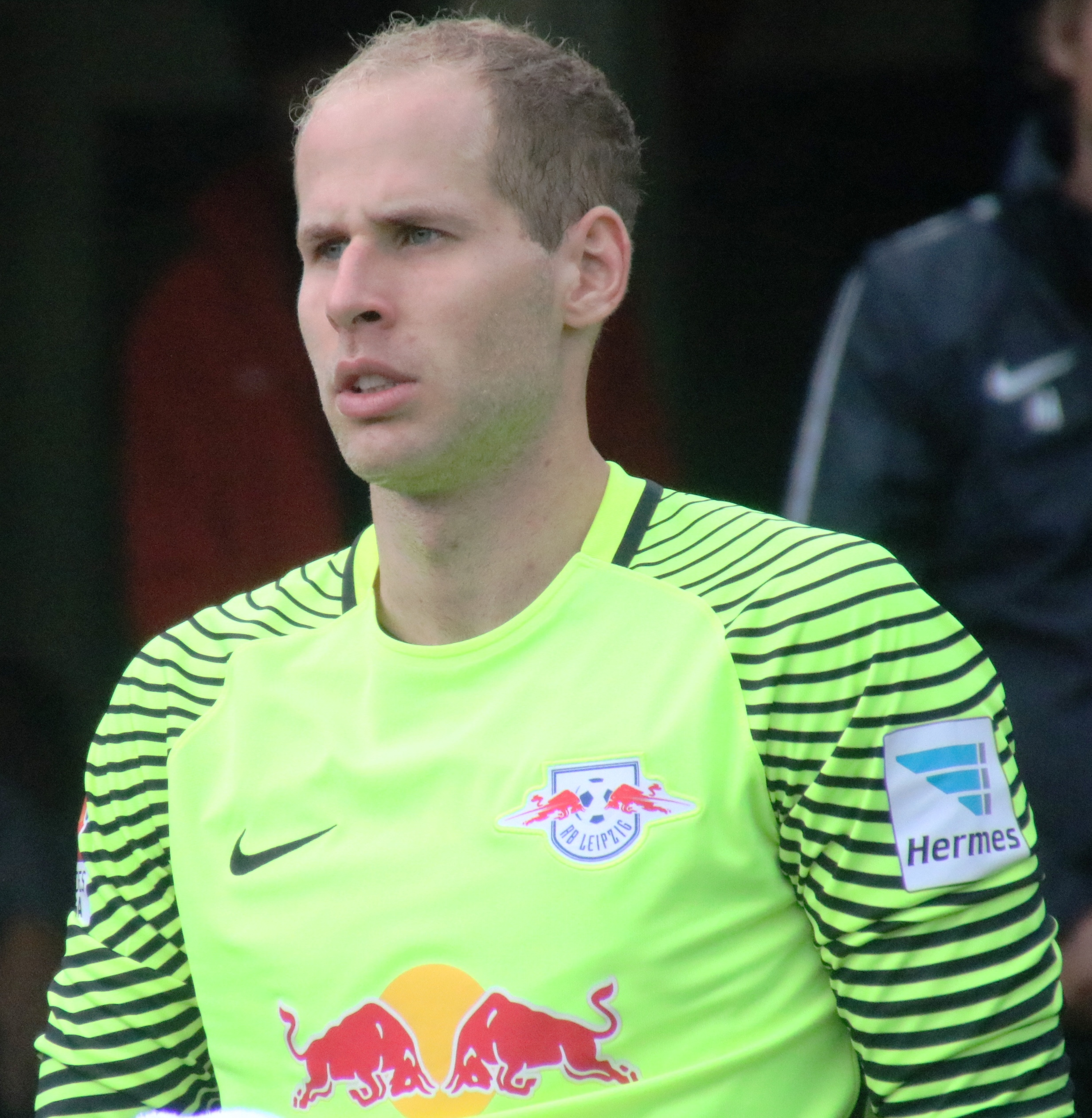 friendly match